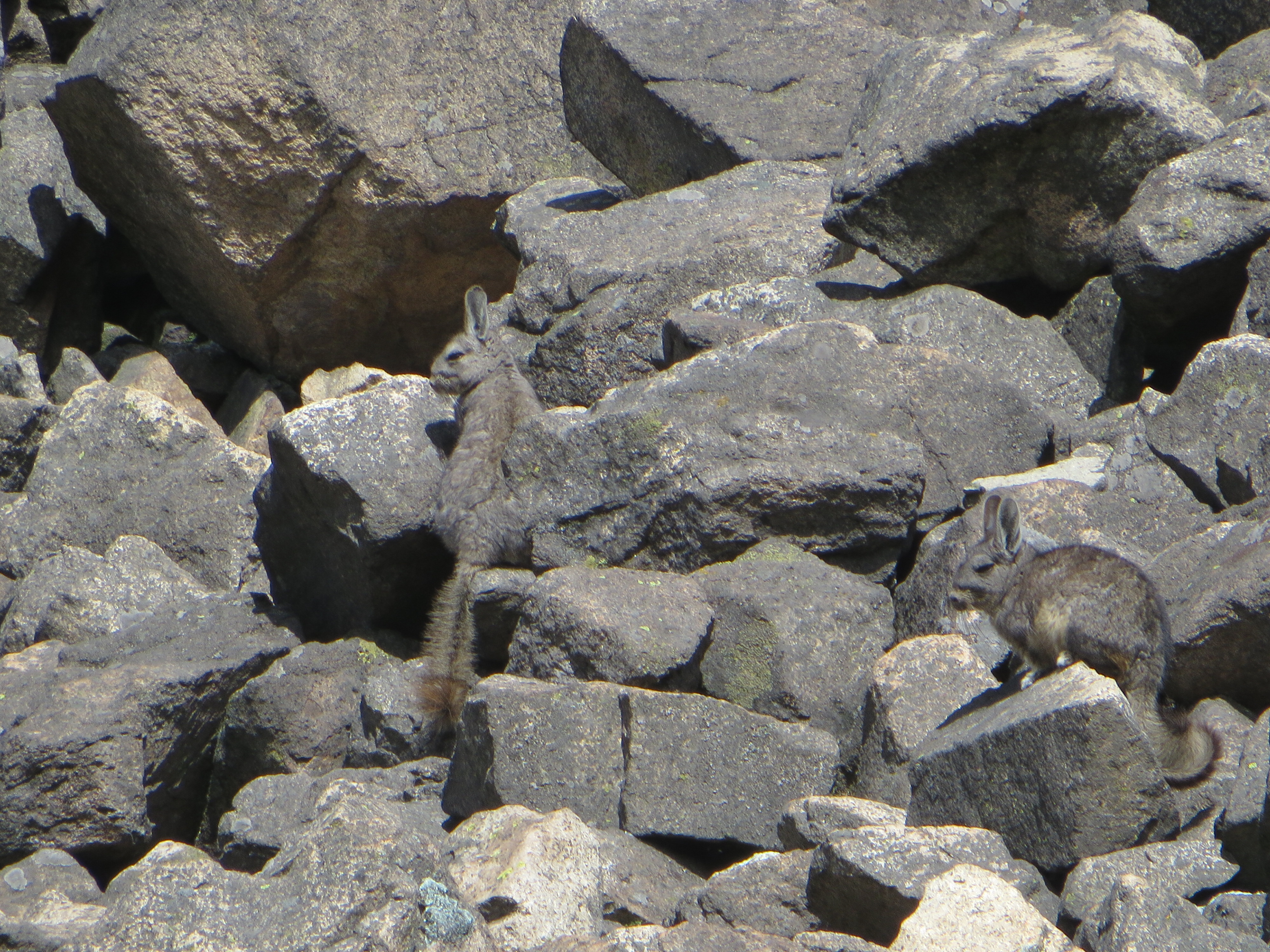 Vizcachas, near Chicla city, Huarochiri, Lima, Perú